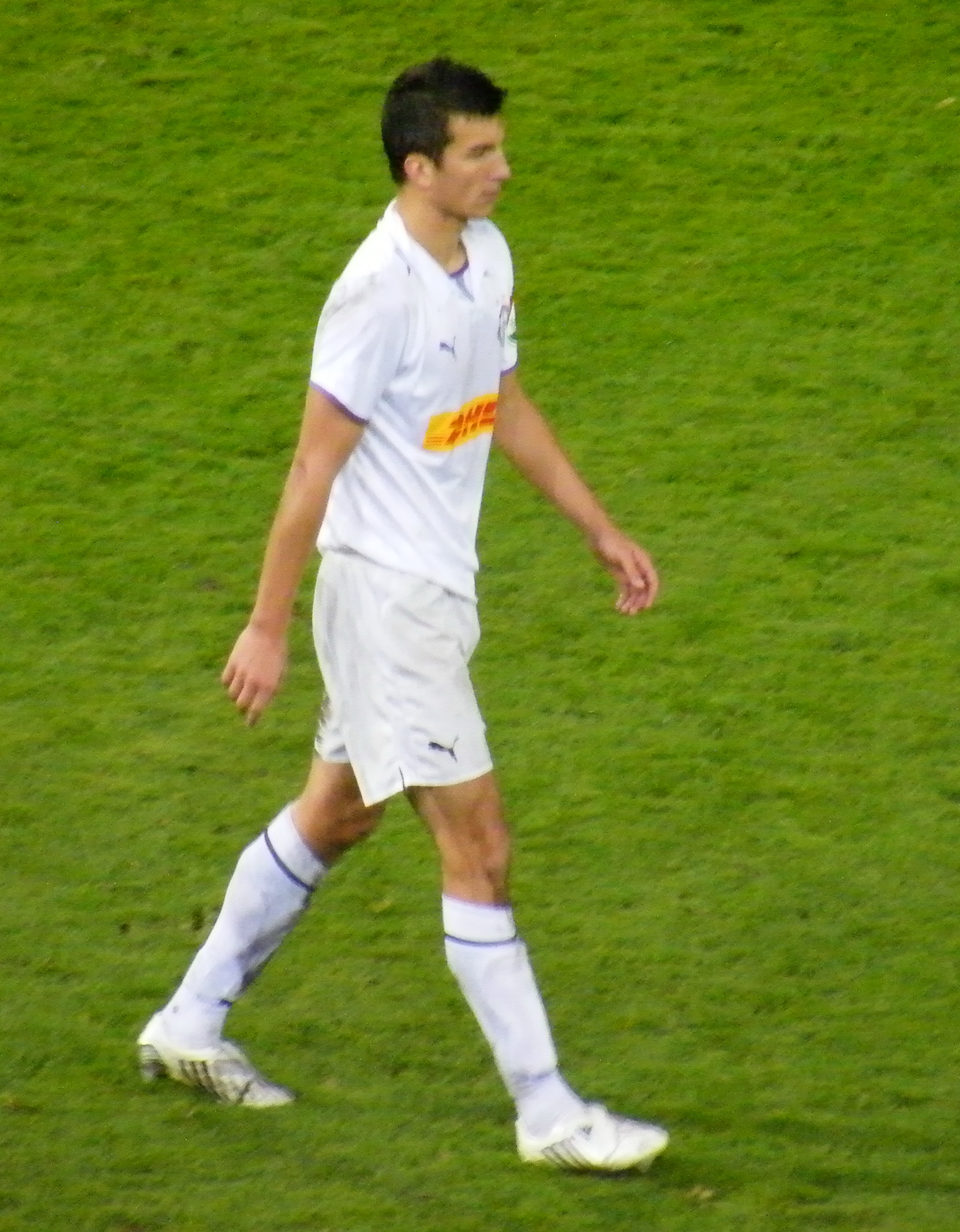 Zoltán Lipták Hungarian football player